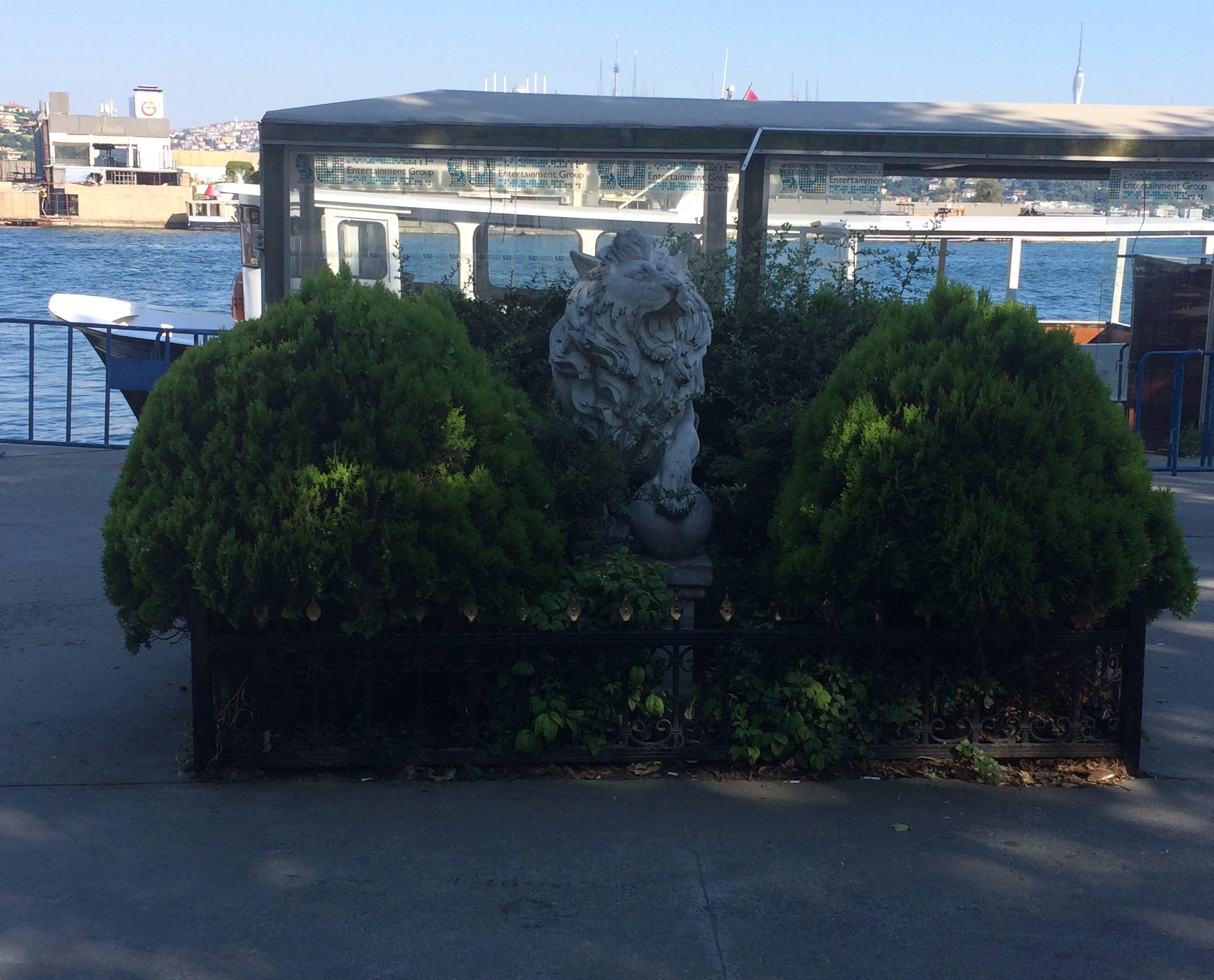 Lion statue in Kurucesme, Besiktas